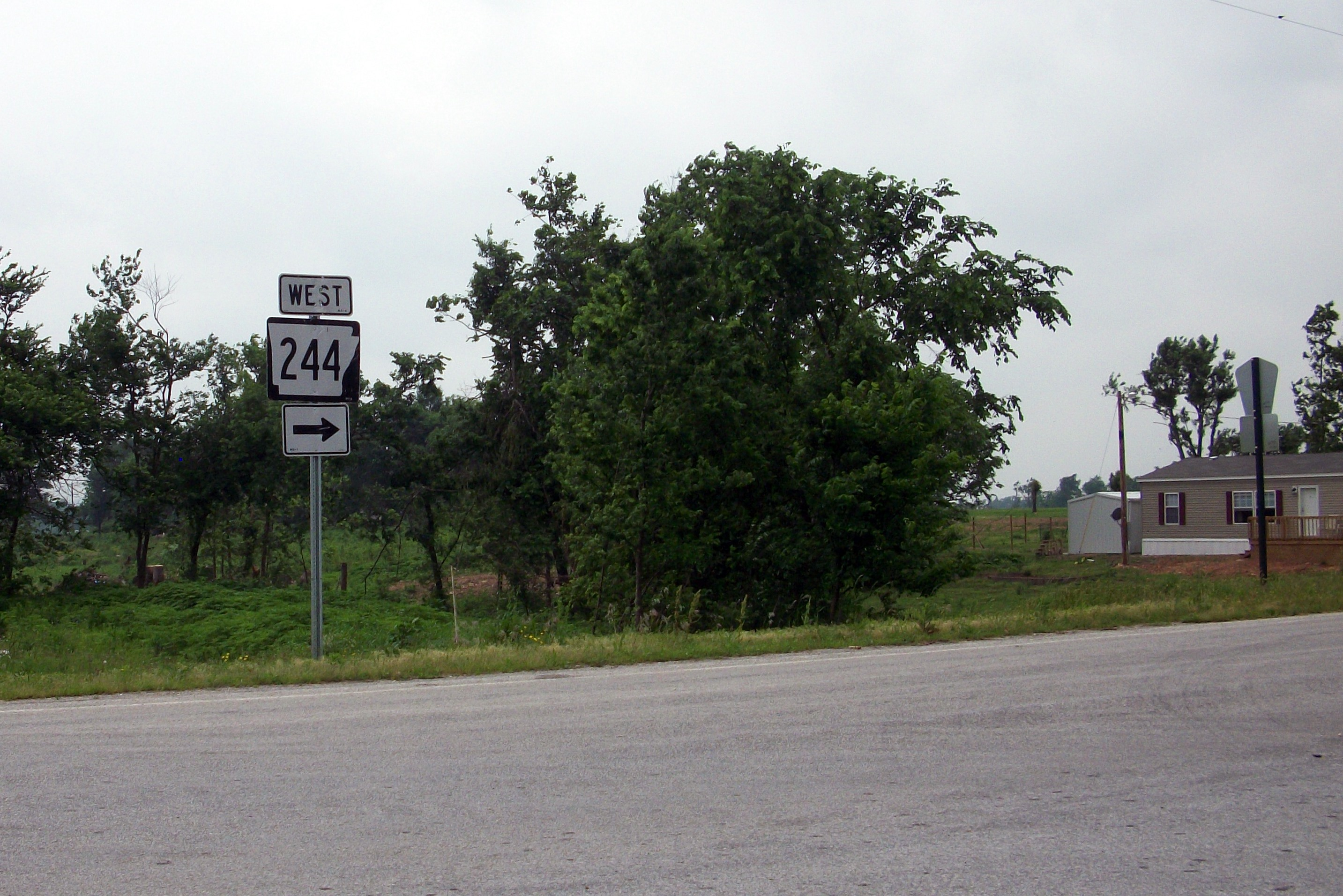 Arkansas Highway 244 at its eastern terminus in Benton County, AR at a rural junction with Arkansas Highway 16.